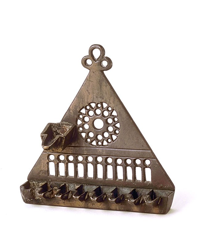 14th-century menorah (Hannukah lamp), France. Musée d'art et d'histoire du Judaïsme, Paris